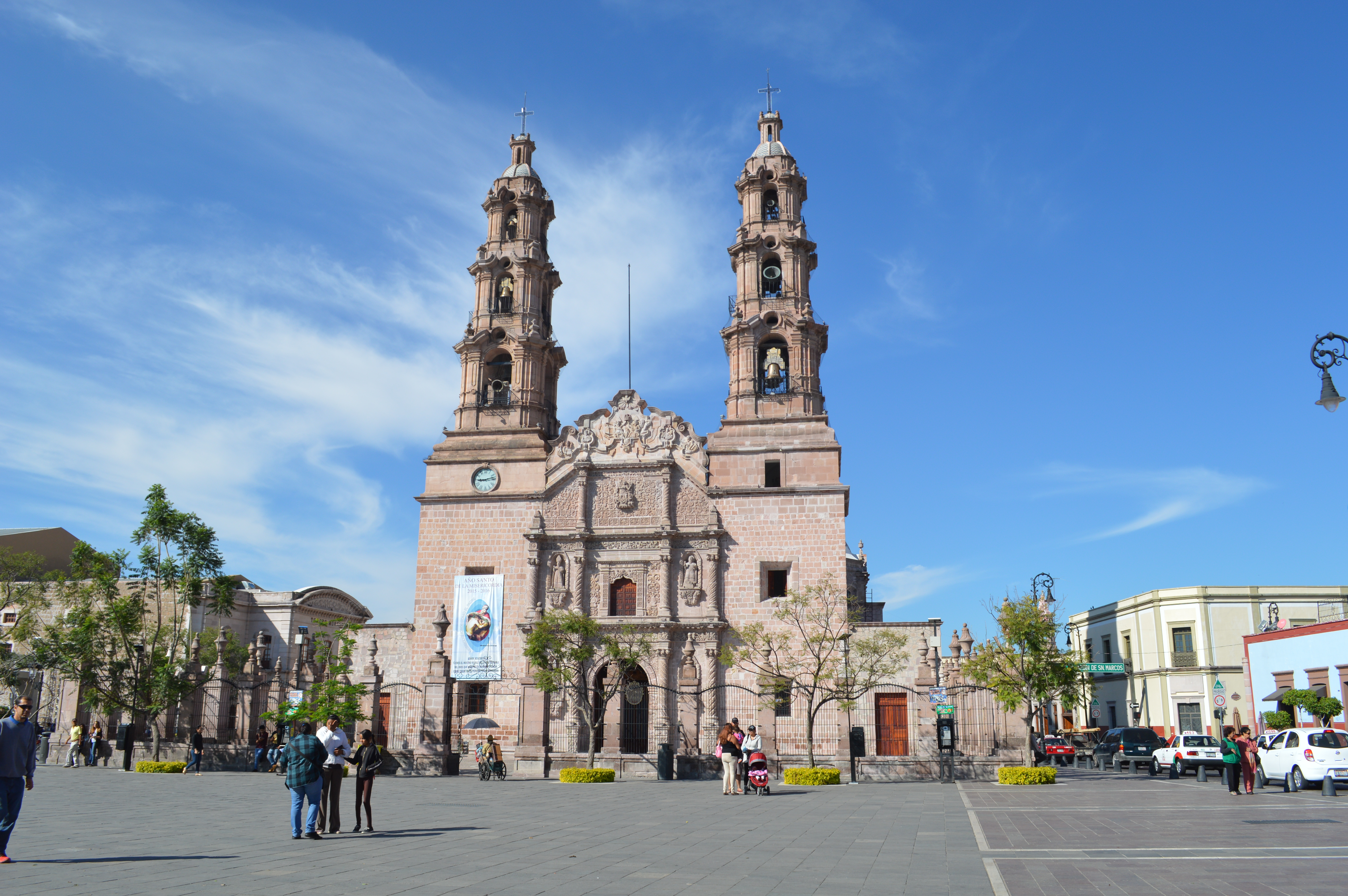 View of the Cathedral of Aguascalientes in the city of Aguascalientes, Mexico